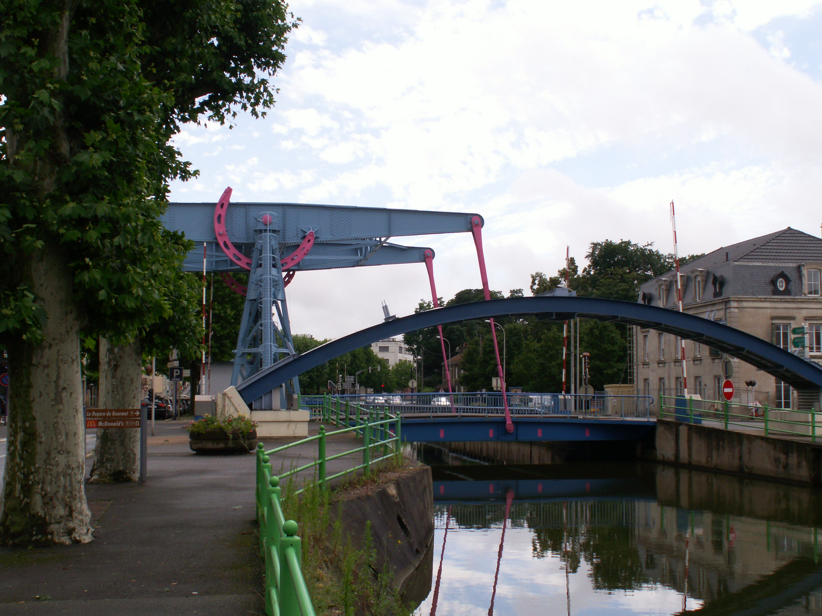 Bascule bridge in Montceau-les-Mines, France